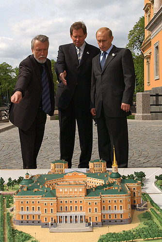 PETER THE GREAT SQUARE, ST PETERSBURG. President Putin with St Petersburg Governor Vladimir Yakovlev and director of the Russian Museum Vladimir Gusev.